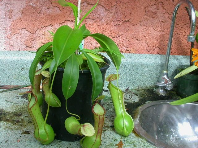 Here is a photo of my cultivated N. alata 'Mimic'. -Jeremiah